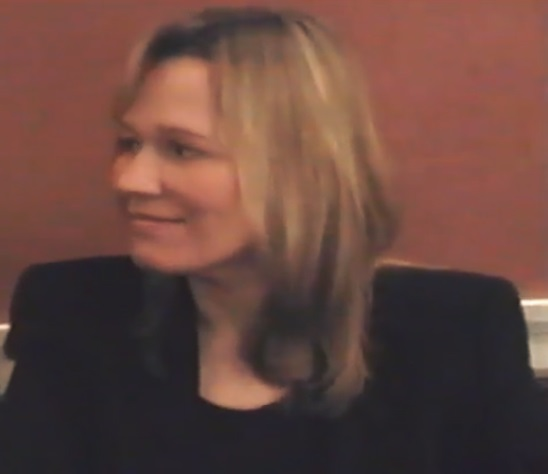 American artist Zina Saunders, interviewed by Mark J. Gross of Count Gore De Vol.